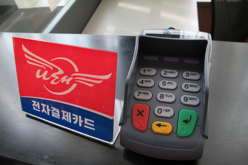 Koryo Credit Card